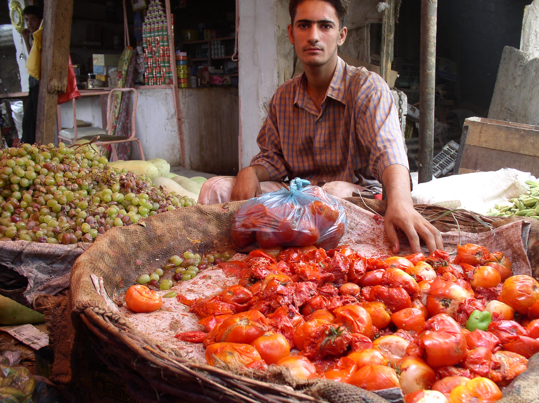 A fruit merchant in Sadr City